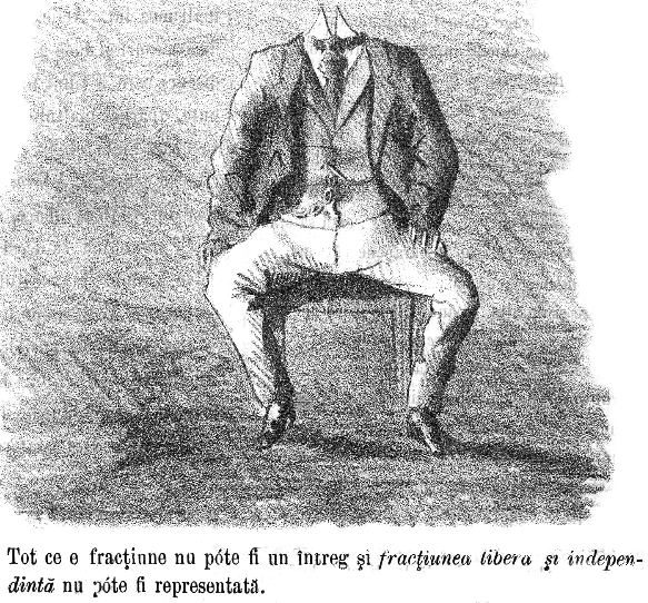 Tot ce e fracțiune nu póte fi un întreg și fracțiunea liberă și independentă nu póte fi representată ("All that is fraction cannot be whole and the free and independent faction cannot be represented"), cartoon satirizing the liberal Moldavian faction in the Romanian parliament.